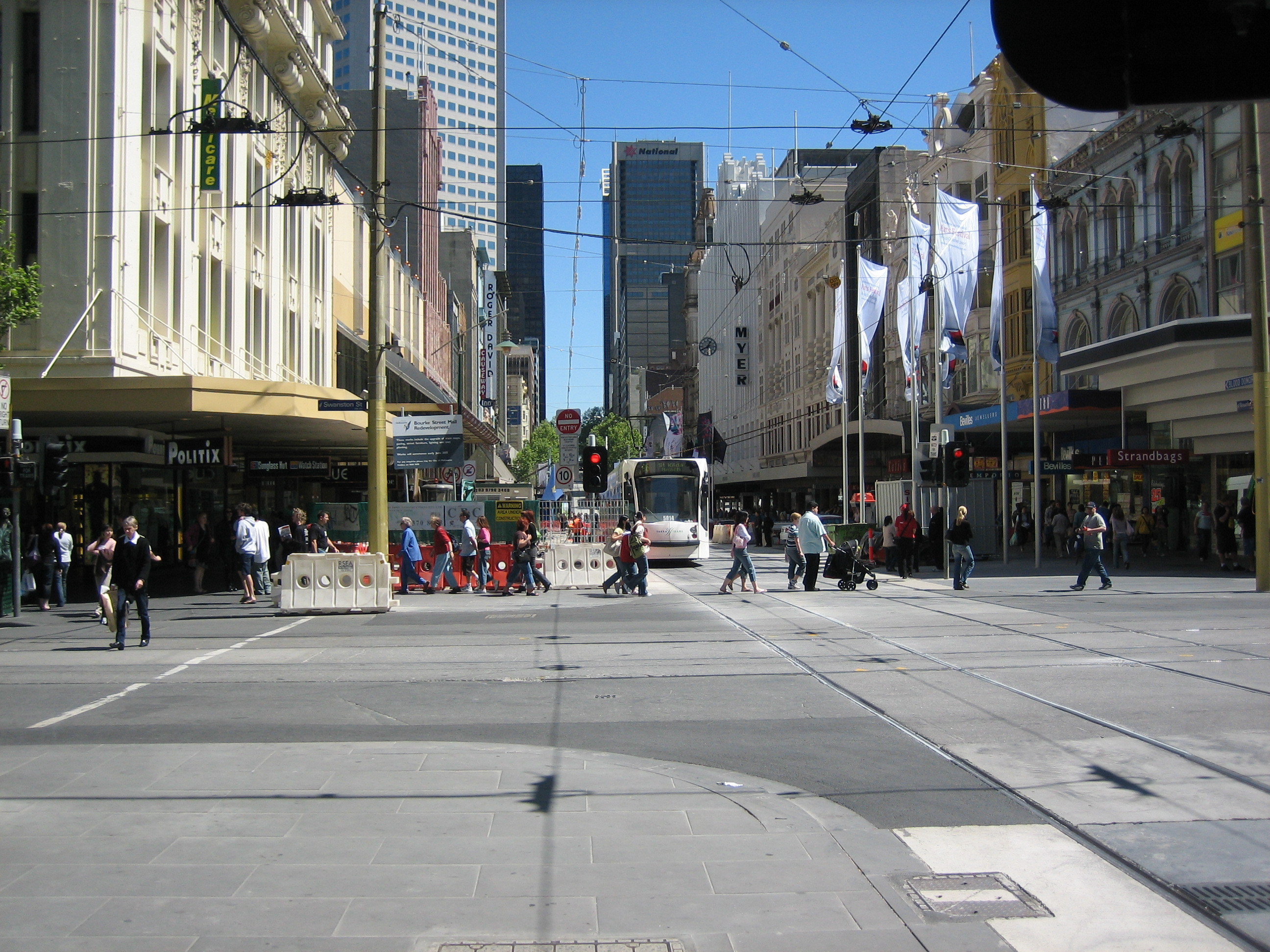 Bourke Street Mall during redevelopment Photographer: Simon Laird